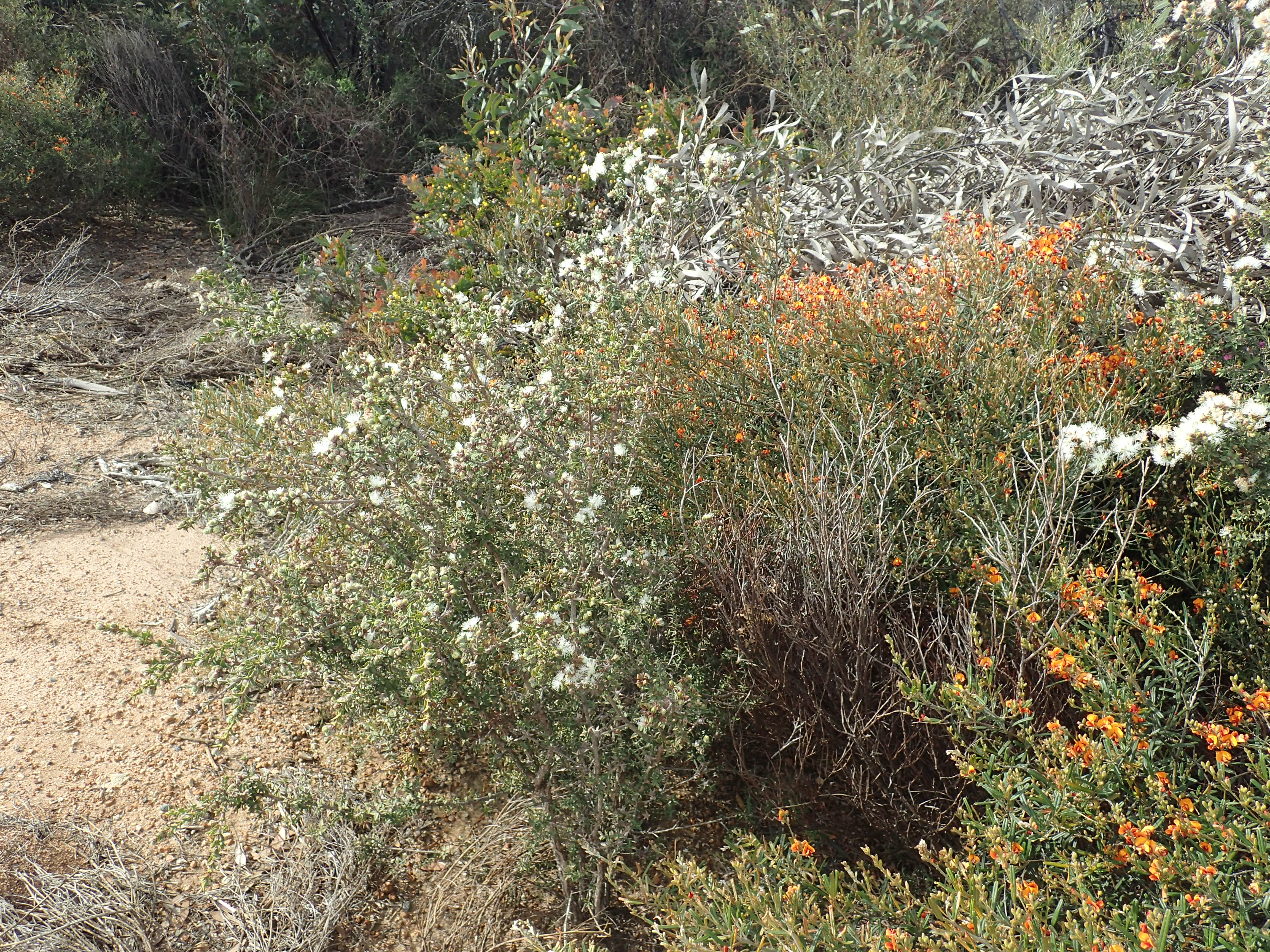 Melaleuca calycina growin near Ravensthorpe on the road the Hopetoun